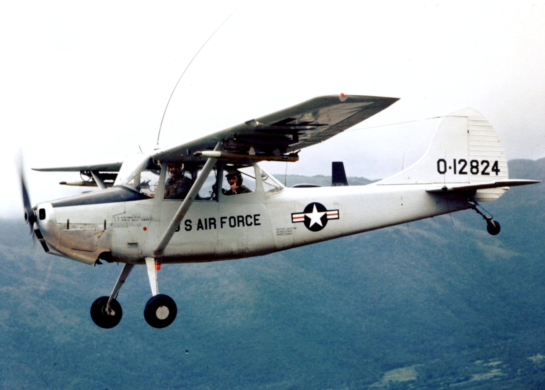 A U.S. Air Force Cessna O-1A Bird Dog (s/n 51-12824) in flight over Vietnam.